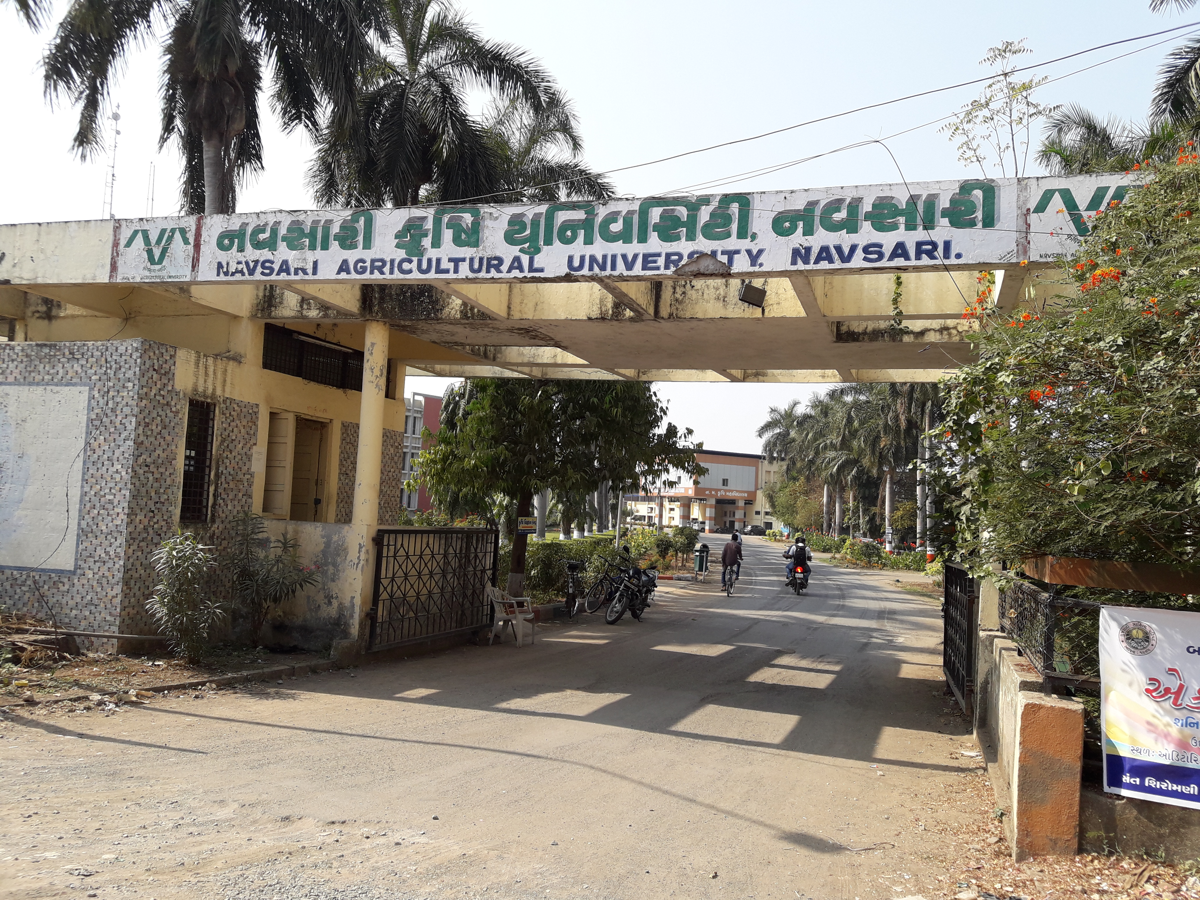 Entrance get of Navsari Agriculture University